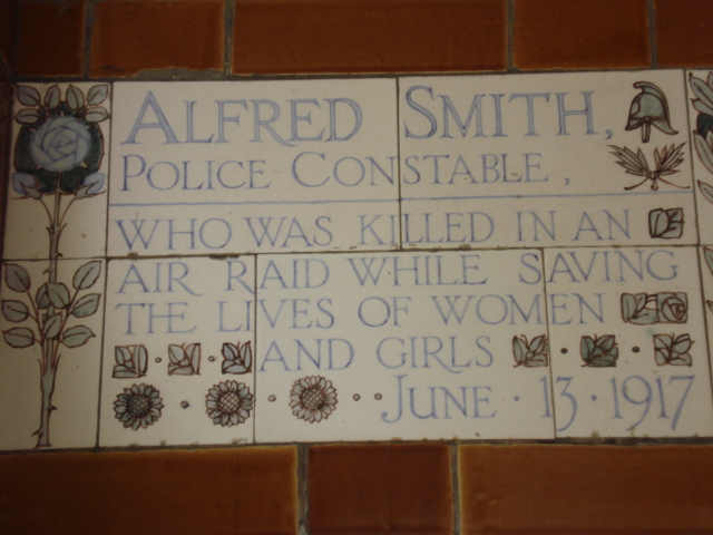 Memorial, Postman's Park, London